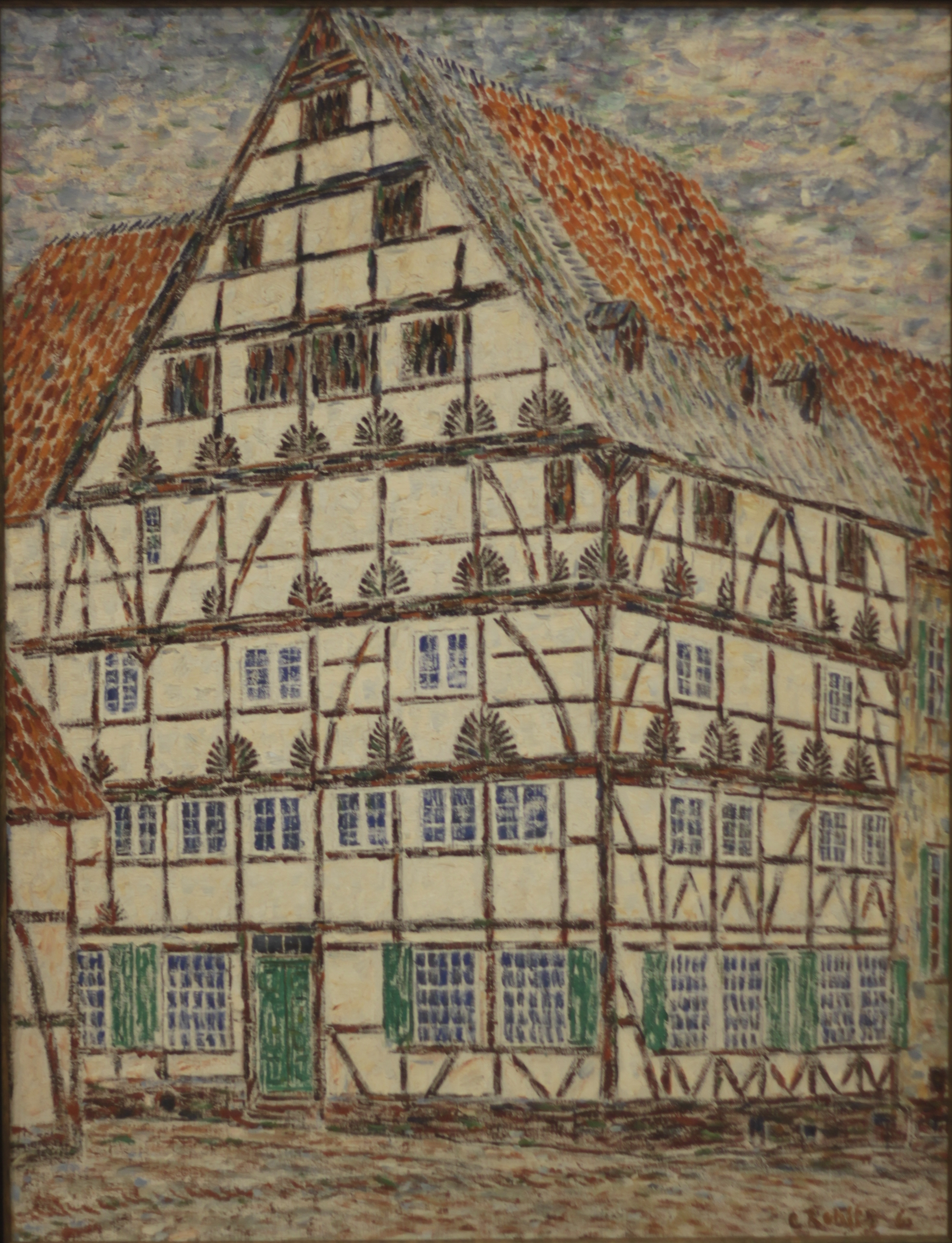 Christian Rohlfs (1849 - 1938) Freiligrath-Haus in Soest 1906 acquired 1922 Walter Kaesbach Stiftung Städtisches Museum Abteiberg Mönchengladbach, Germany